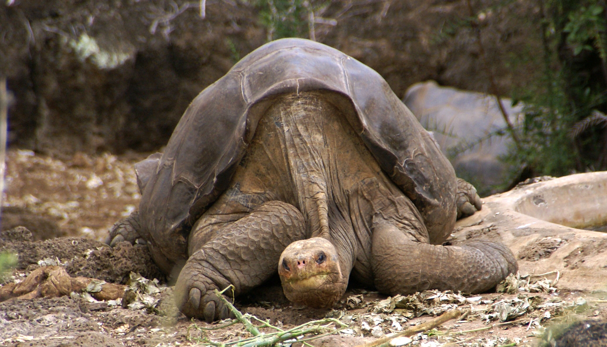 Lonesome George, the last surviving Pinta giant tortoise, (Geochelone nigra abingdoni) on Santa Cruz. He died on June 24, 2012